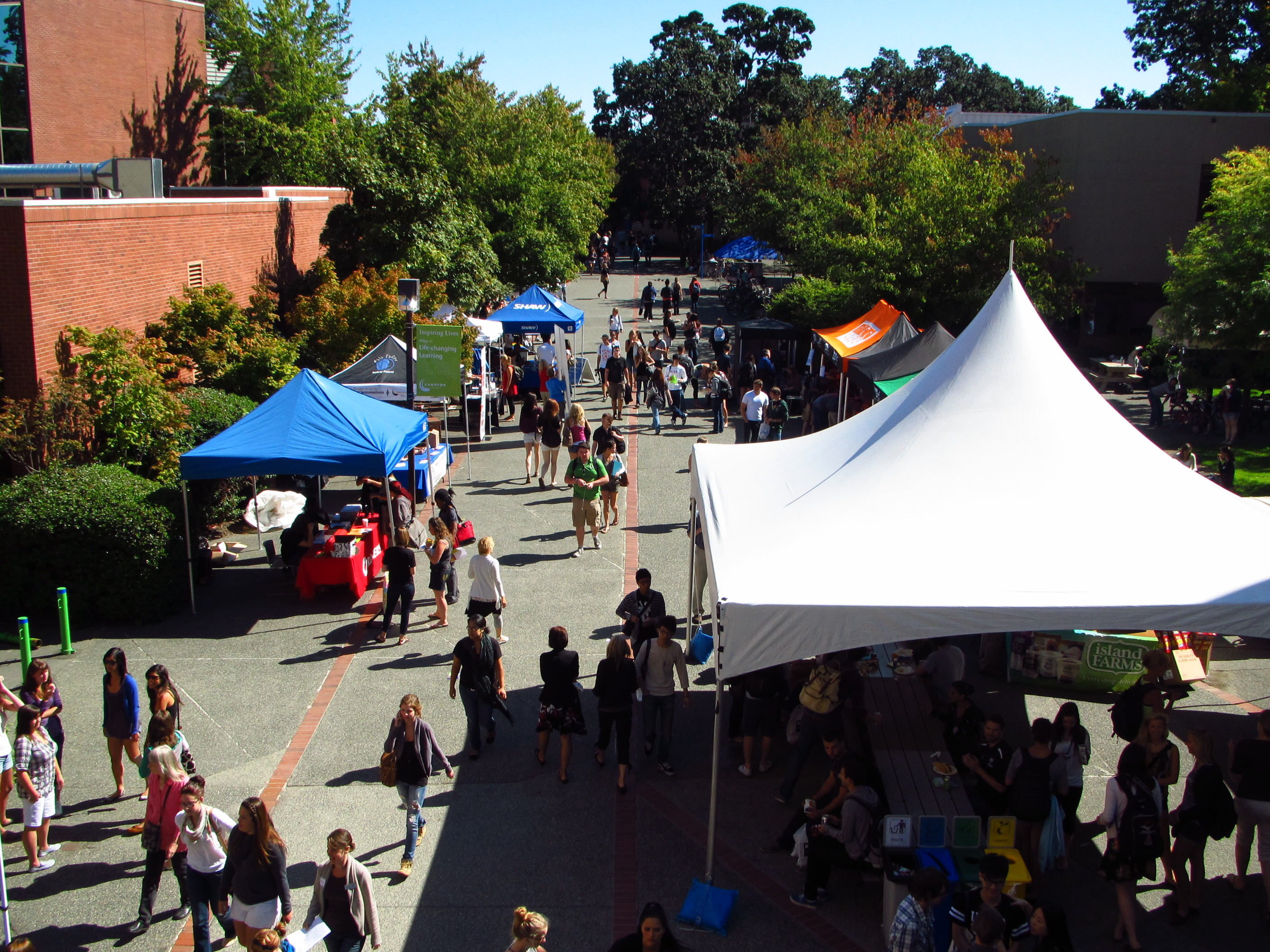 The Lansdowne Campus of Camosun College on the first day of classes, September 2011